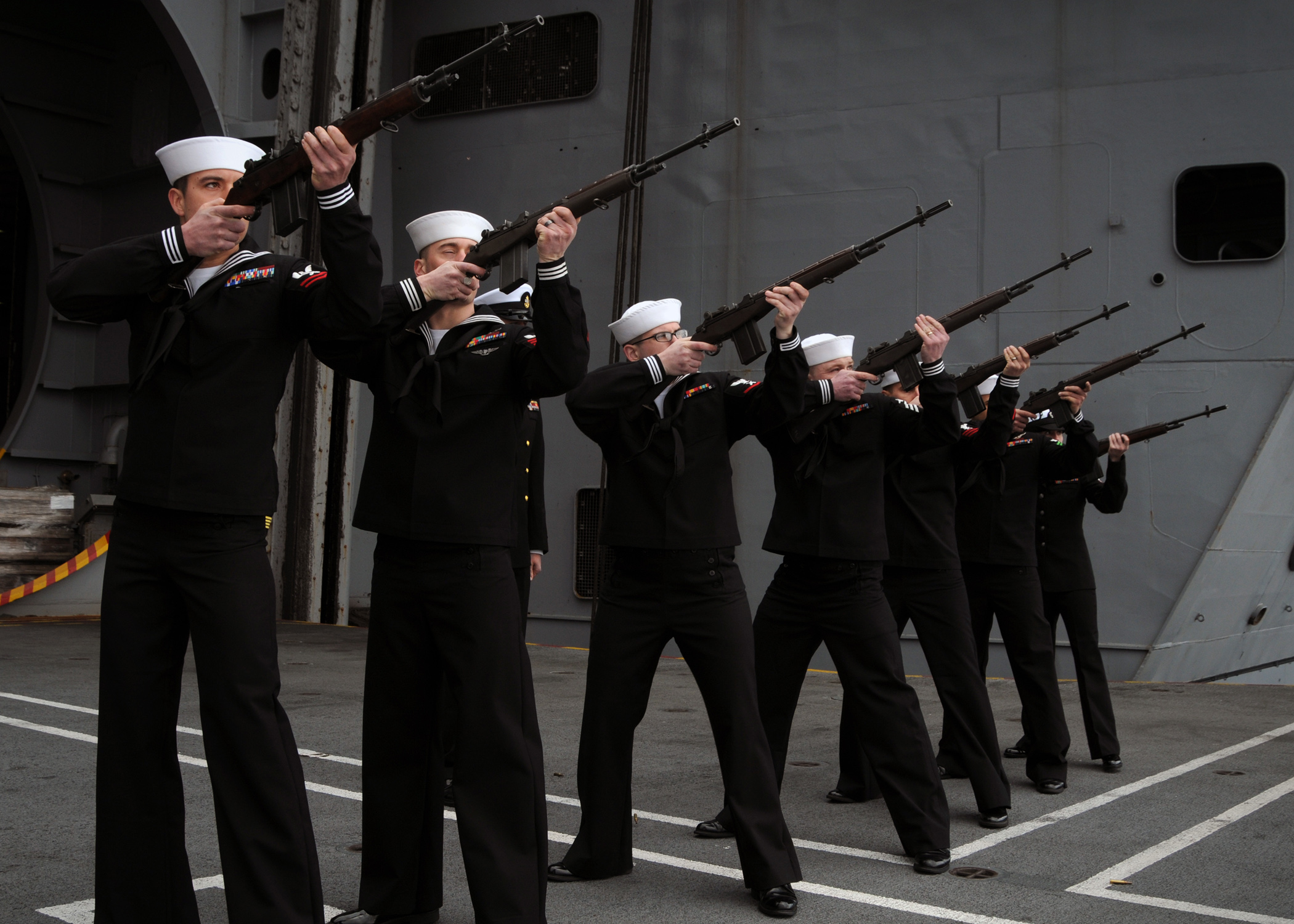 090410-N-0774H-210 PACIFIC OCEAN (April 10, 2009) Sailors from the weapons department of the aircraft carrier USS Abraham Lincoln (CVN 72) perform a rifle salute during a burial at sea ceremony. Lincoln is on a scheduled underway.